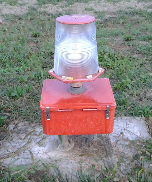 Airport navigation aid - REIL